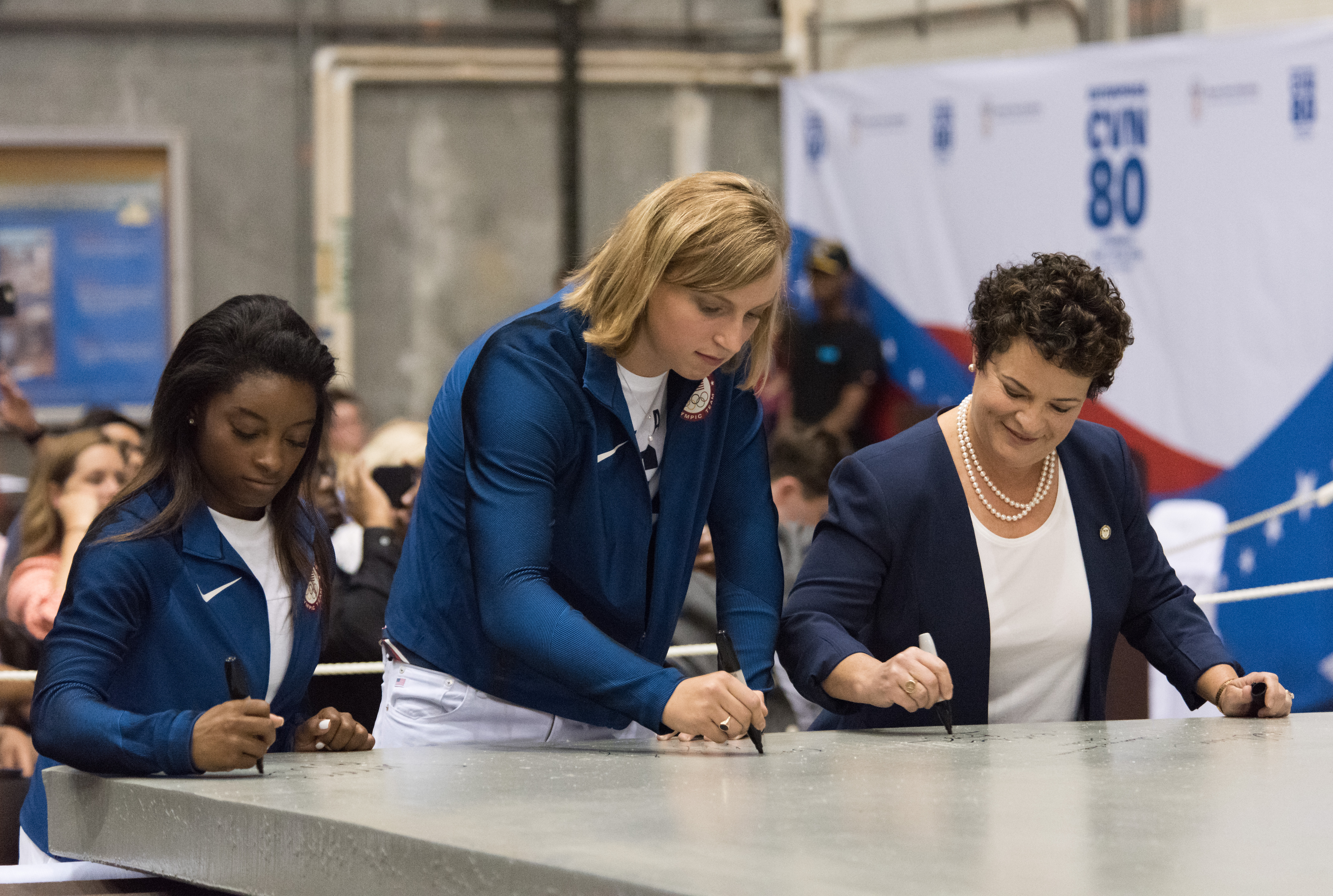 170824-N-N0101-110 NEWPORT NEWS, Va. (Aug. 24, 2017) U.S. Olympic gold medalists Simone Biles, left, and Katie Ledecky, ship’s sponsors of the future aircraft carrier USS Enterprise (CVN 80), and Jennifer Boykin, president of Newport News Shipbuilding, sign a 35-ton steel plate at Newport News Shipbuilding to start advance construction of Enterprise, the ninth U.S. Navy ship to bear the name. Enterprise will be the third Gerald R. Ford-class aircraft carrier. (U.S. Navy photo courtesy of Huntington Ingalls Industries by Matt Hildreth/Released)